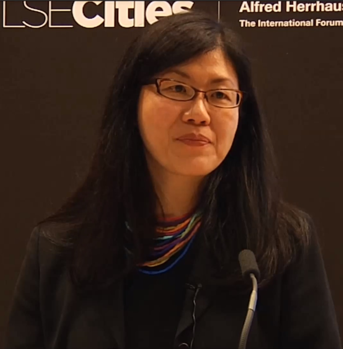 China and India’s urban footprints are expected to be six times larger in 2030 than in 2000, while many African cities are among the fastest growing, ushering in urbanisation to the world’s least urban continent. Speaker: Karen C. Seto Thursday 19 November 2015 | 18:30-20:00 @ LSE